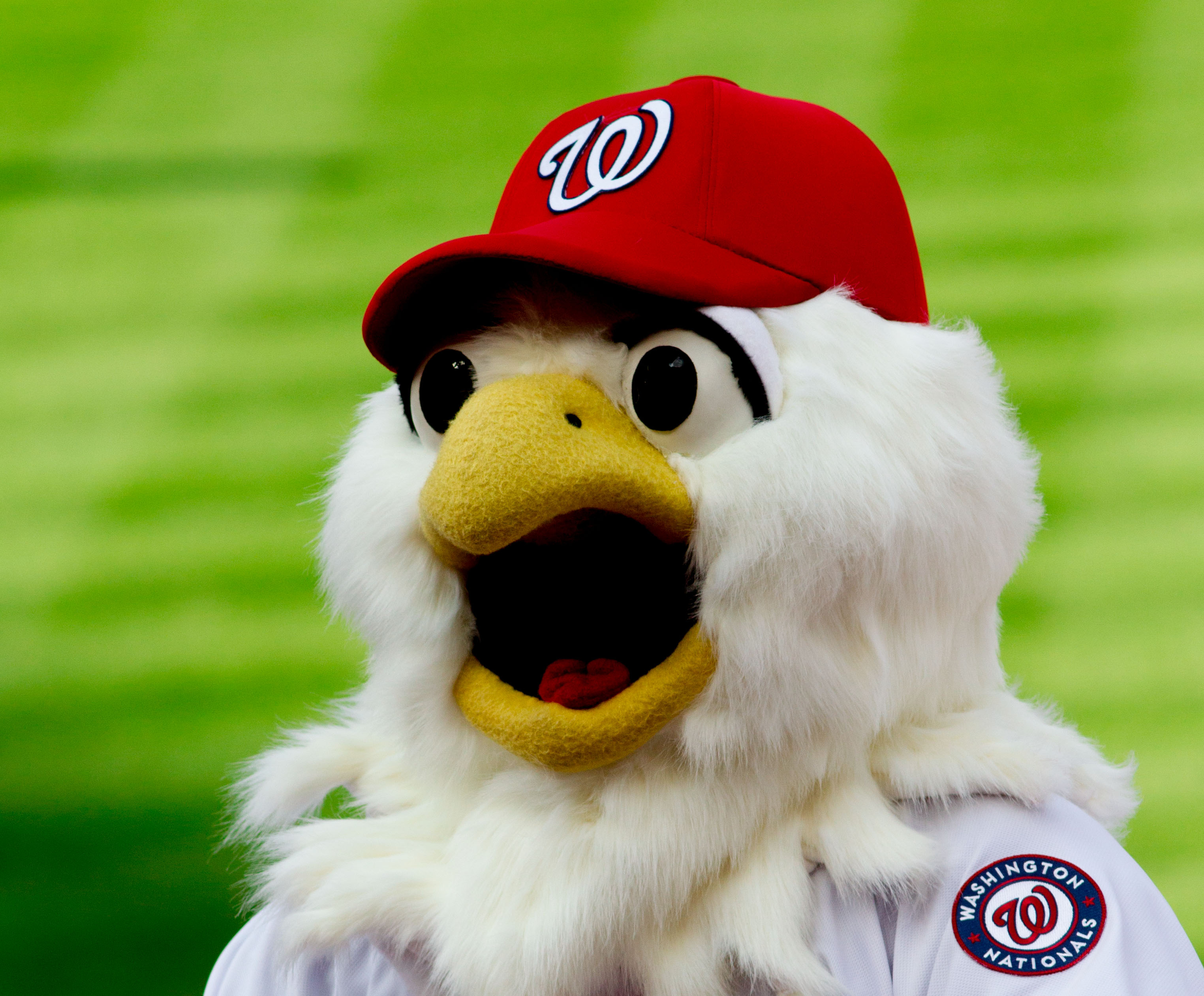 An image of Washington Nationals mascot Screech.